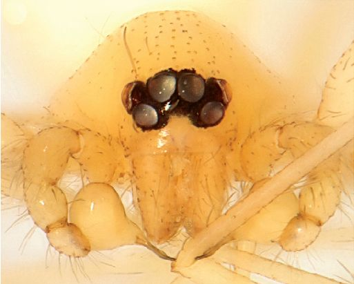 Megaoonops avrona, frontal view of male prosoma.